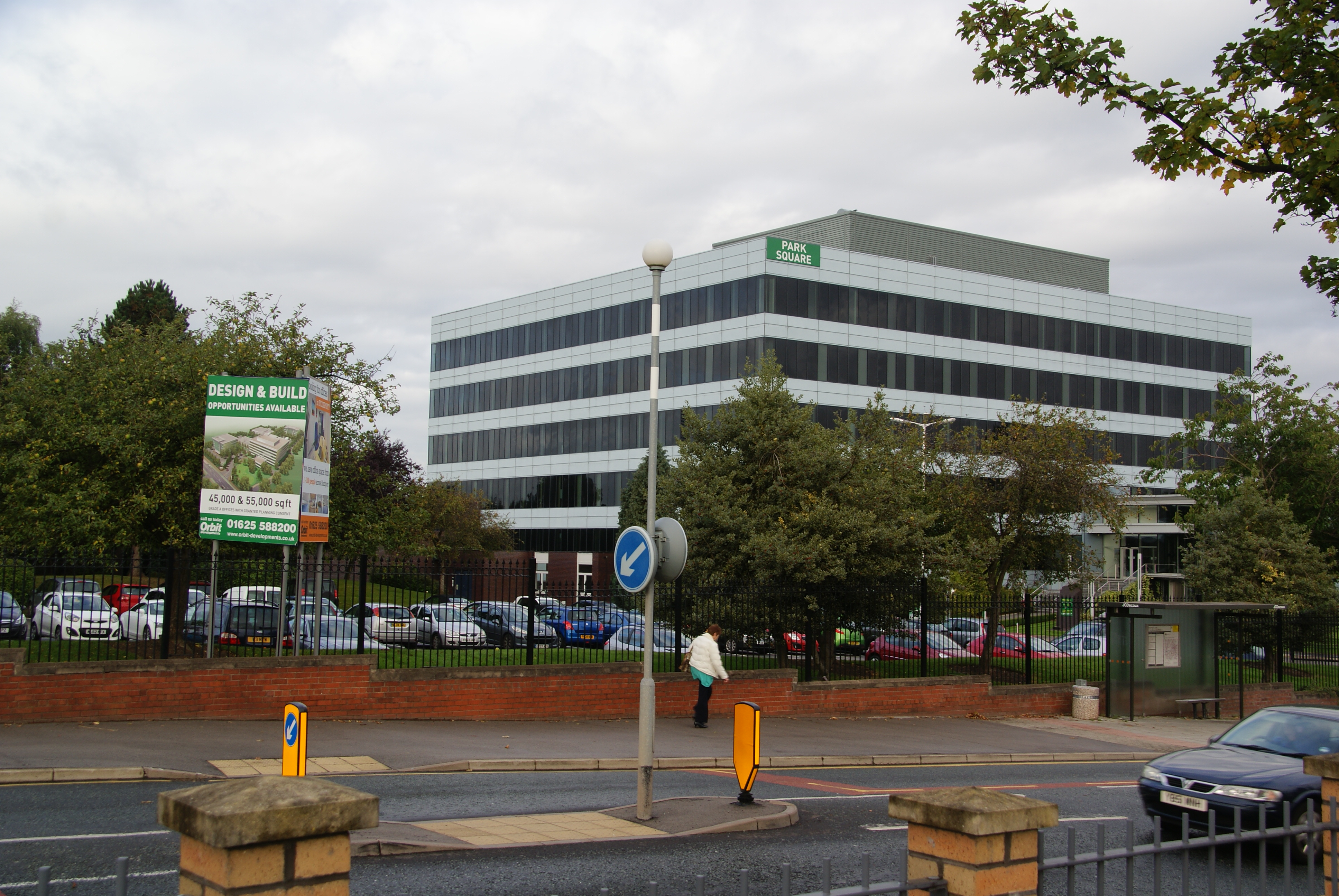 Park Square, Stockport